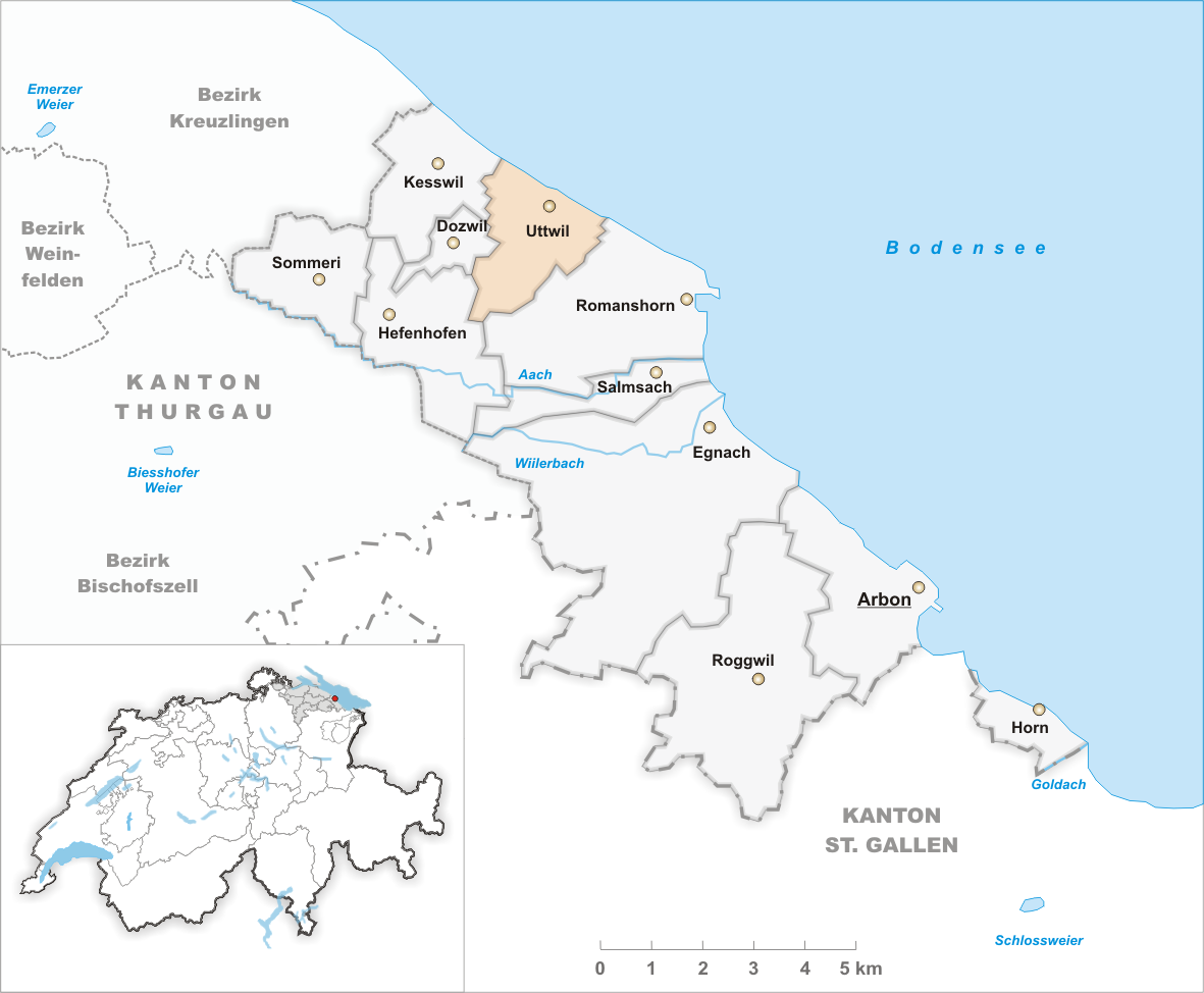 Municipality Uttwil